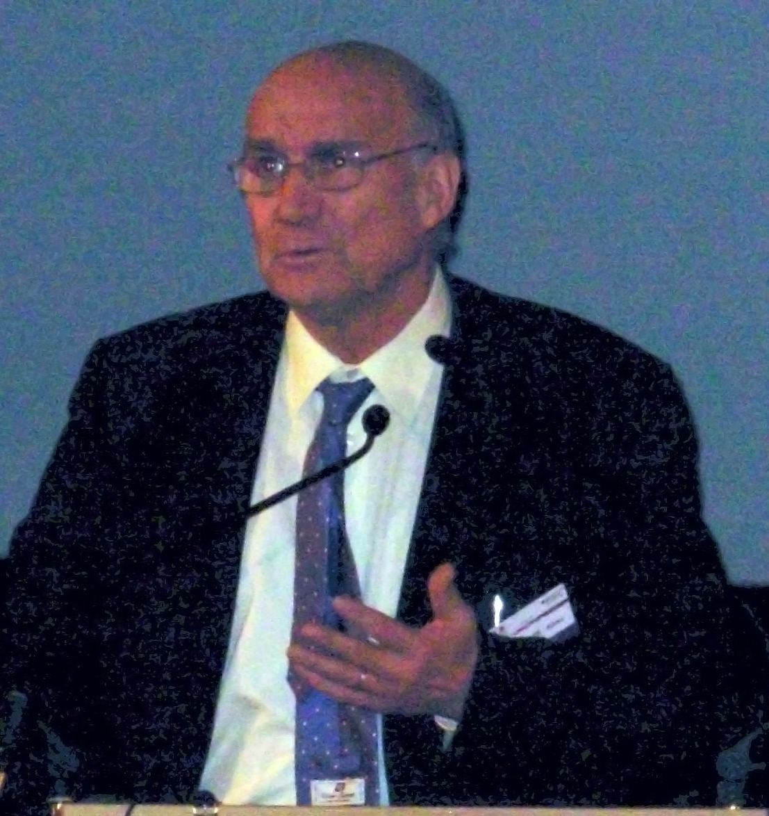 Adrien Zeller in the "6e forum du financement de l'innovation et de la compétivité", Strasbourg, 14 december 2006